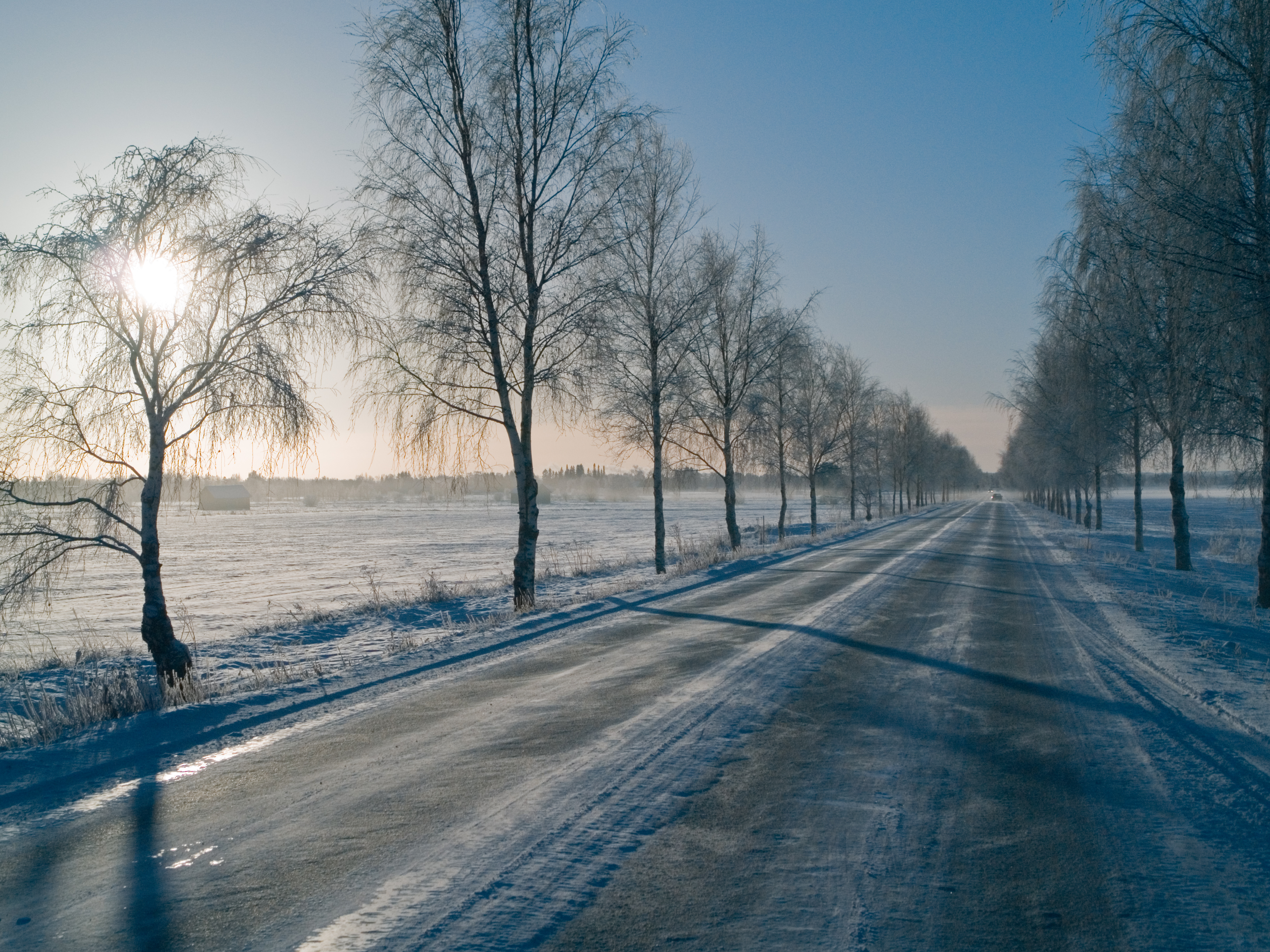 3 km long birch-lined straight road across Vaivaistenneva in Könni, Ilmajoki, Finland. Winter 2013.